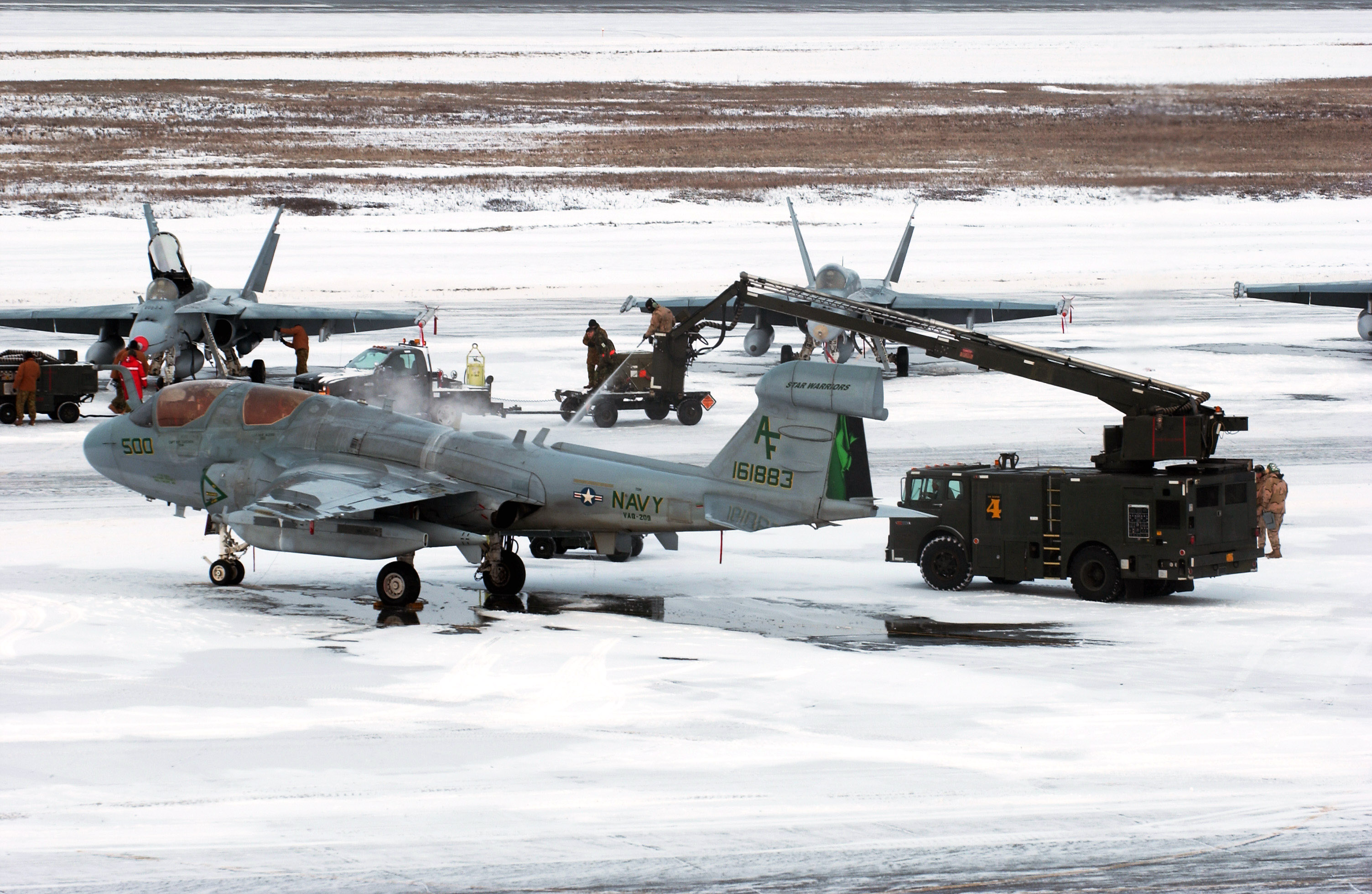 Maintainers remove snow and de-ice a U.S. Navy Grumman EA-6B Prowler for the first official day of the Red Flag-Alaska 08-2 exercise on 7 April 2008 at Eielson Air Force Base, Alaska (USA). Red Flag-Alaska provided training for deployed maintenance and support personnel in sustainment of a large-force deployed air operation. The EA-6B (BuNo 161883) was assigned to electronic tactical warfare squadron VAQ-209 Star Warriors of the U.S. Naval Reserve at NAF Washington/Andrews AFB, Maryland (USA). Three McDonnell Douglas F/A-18 Hornet fighters are visible in the background.